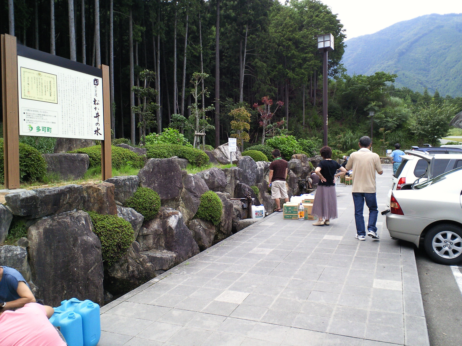 Shin-Matsukai no Mizu, Taka, Hyogo